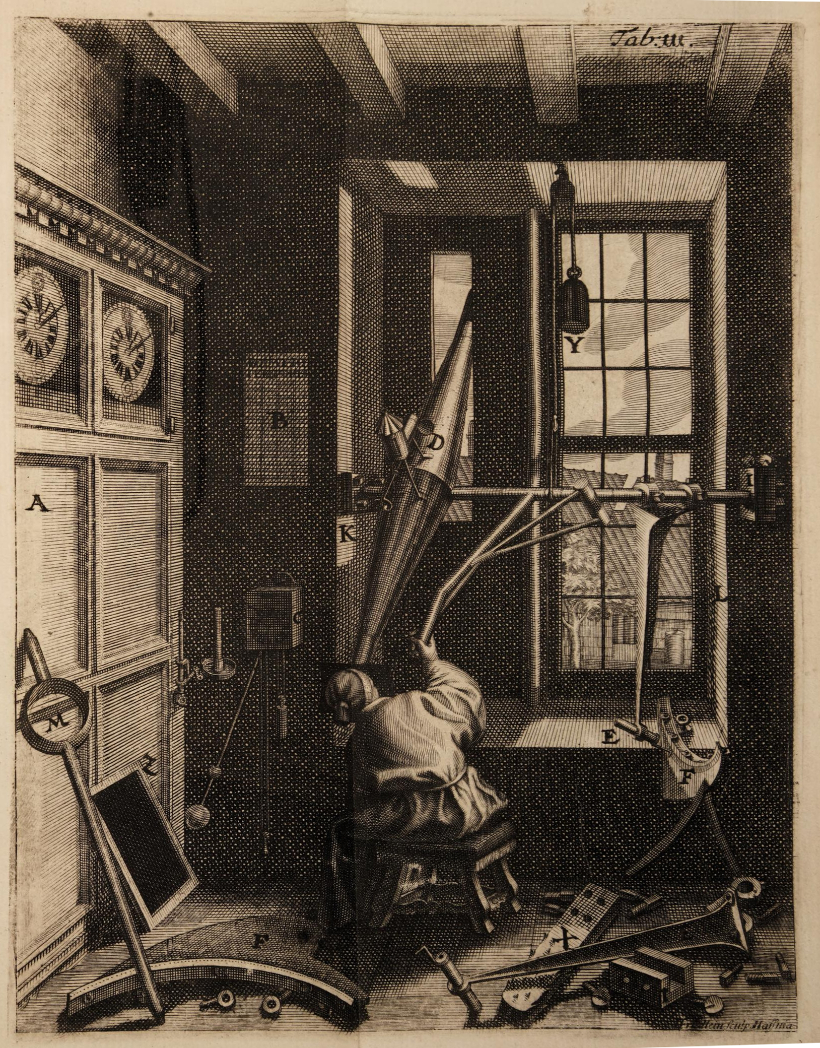 Ole Rømer at work in his home observatory at t. Kannikestræde in Copenhagen. Cipperplate engraving intended for a never published work by Rømer. After his death it was published in Peder Nielsen Horrebow's Basis Astronomiæ (1735).